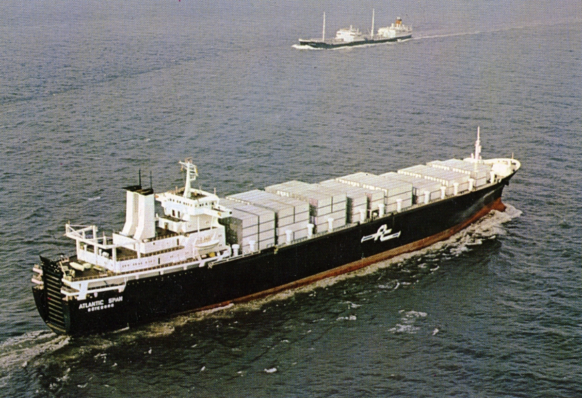 ATLANTIC SPAN (IMO 6716613) built at Rheinstahl Nordseewerke, Emden (yard № 383, launched: 09-05-1967, delivered: 31-07-1967), lengthened and widened 1976, 1984 ATLANTIC SERVICE, BU Kaohsiung 19-11-1987.